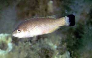 Picture of Symphodus melanocercus